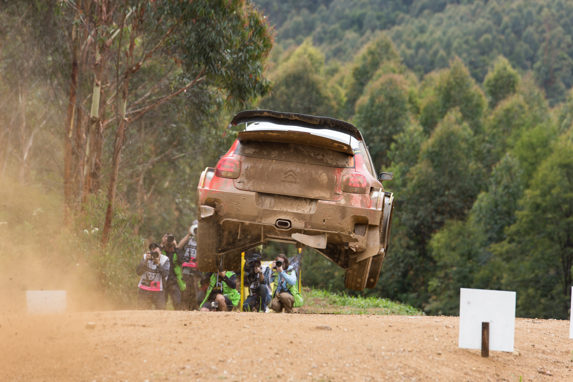 Rally Australia 2017